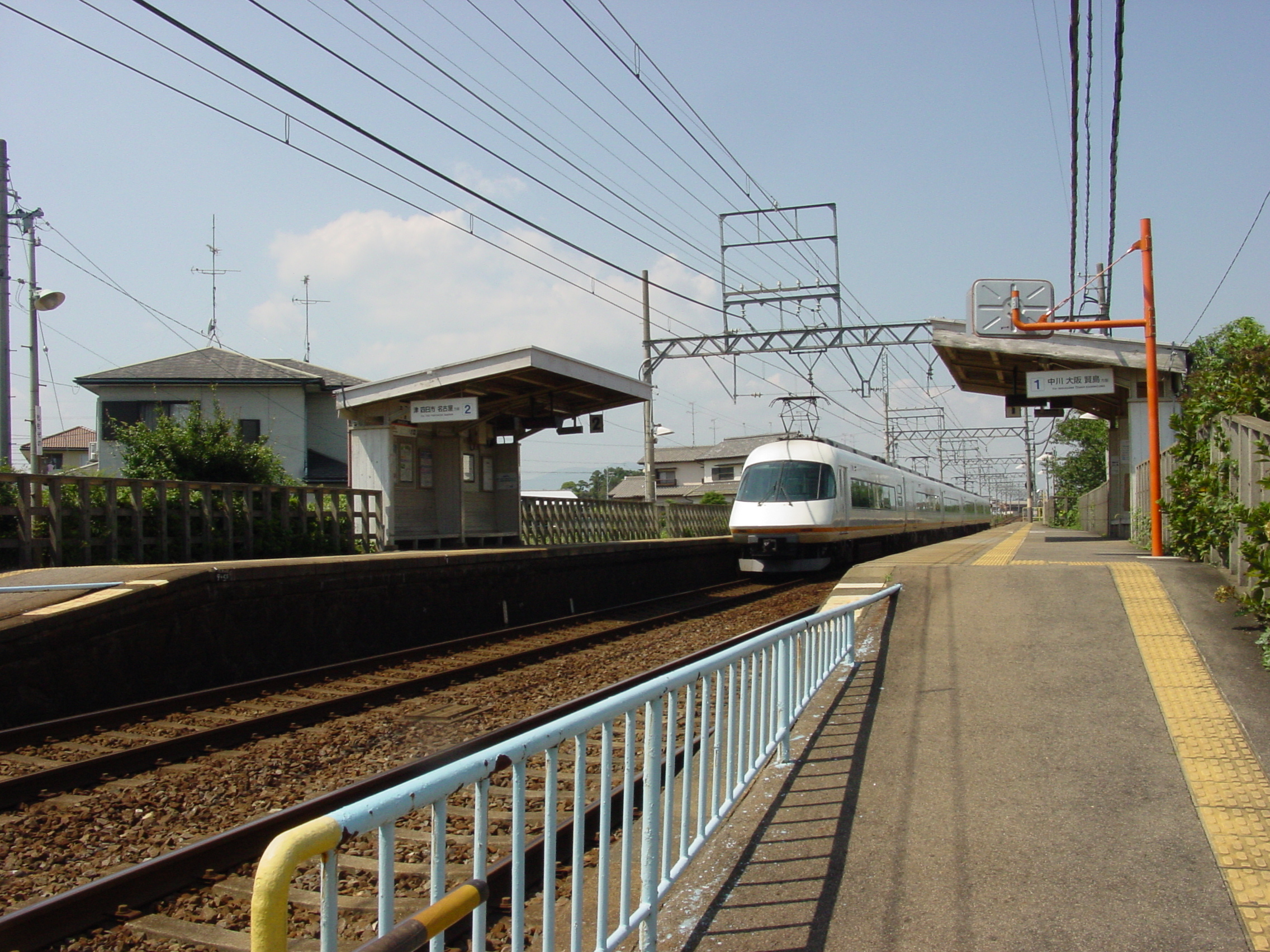 Momozono station of Kintetsu Nagoya Line.